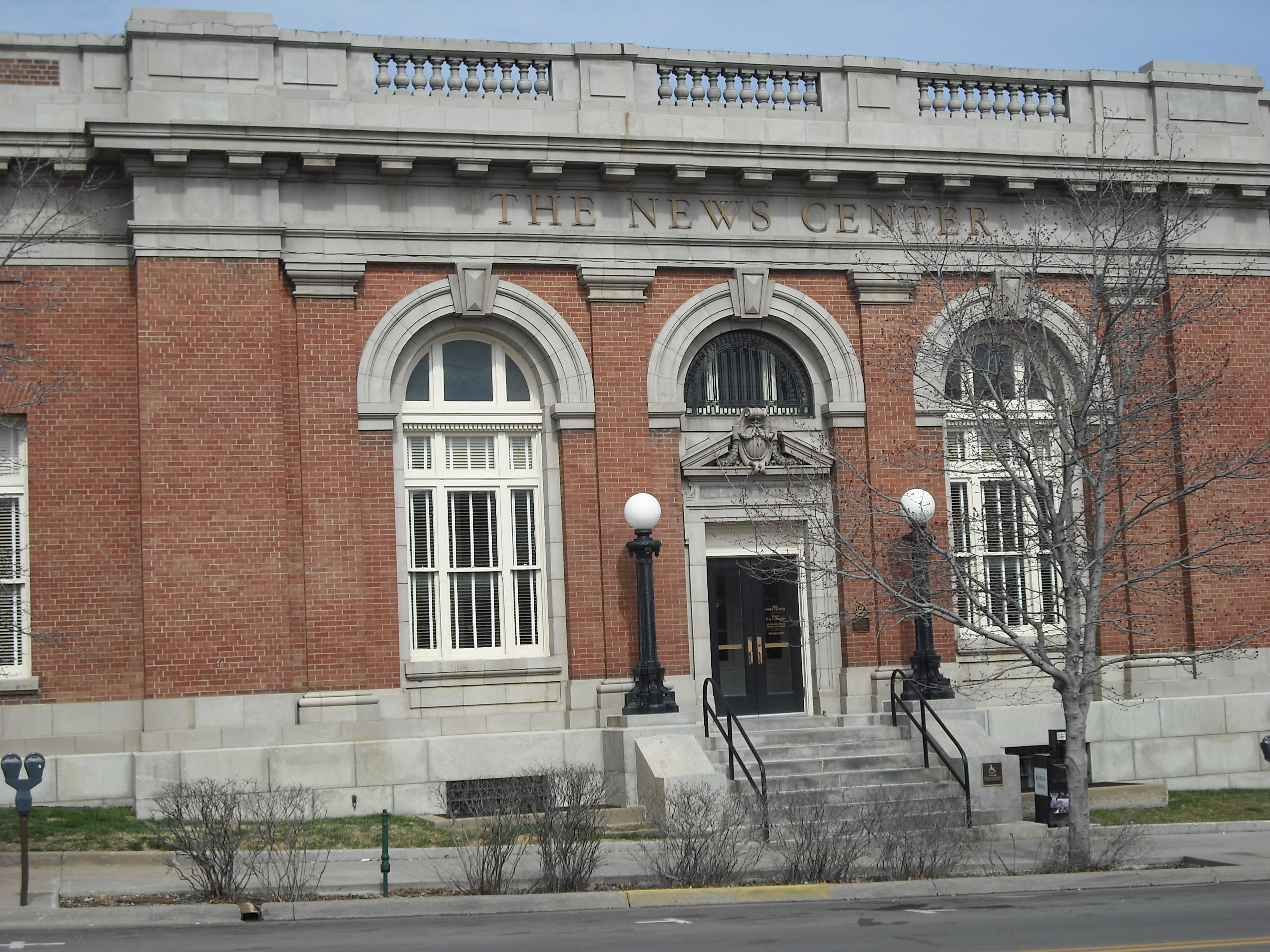 The old Lawrence Post Office. Now used as the offices for The World Company, owner of the Lawrence Journal-World newspaper and the local Channel 6 TV stations. On NRHP.